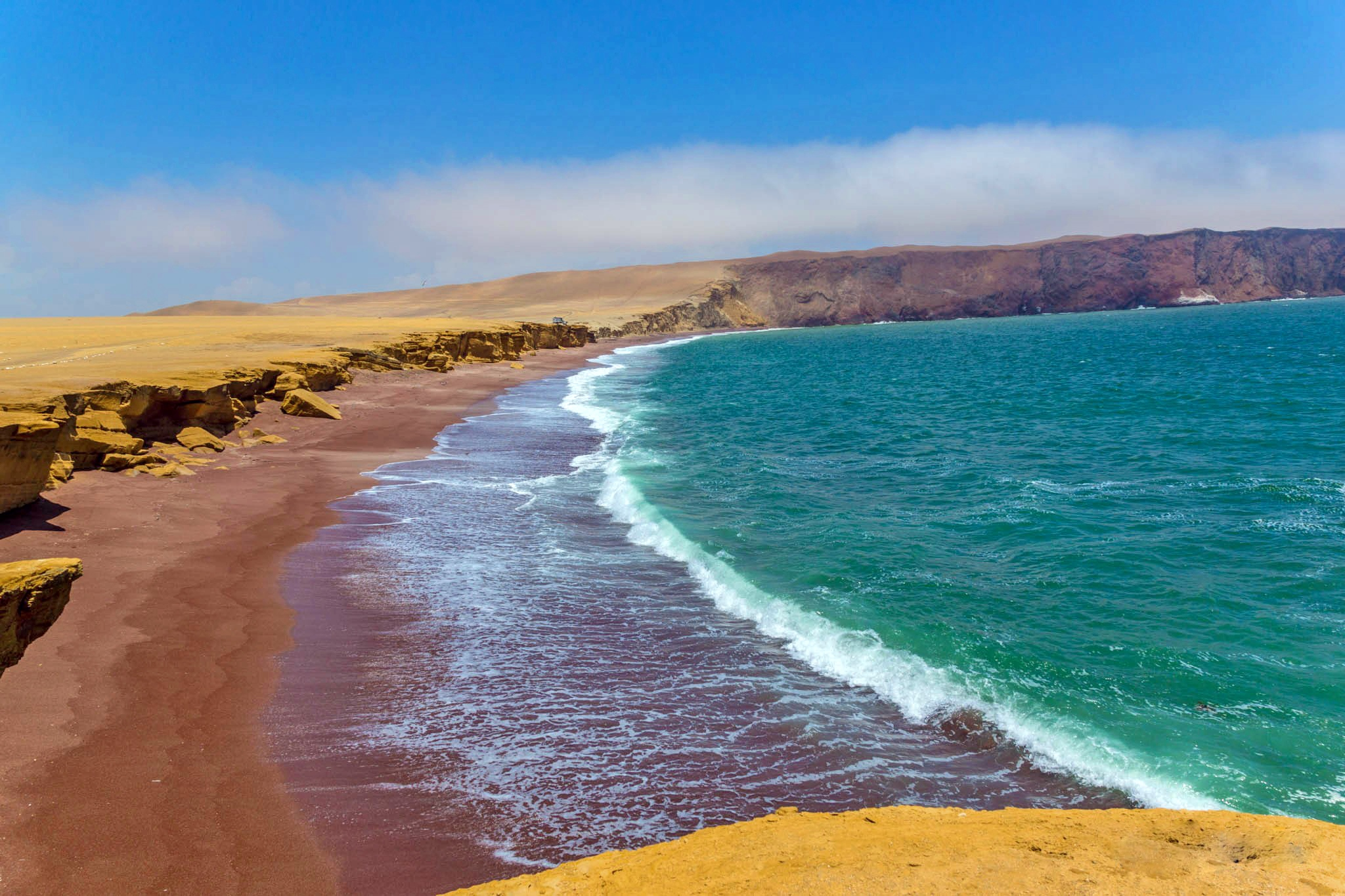 328 Paracas National Reserve, Ica